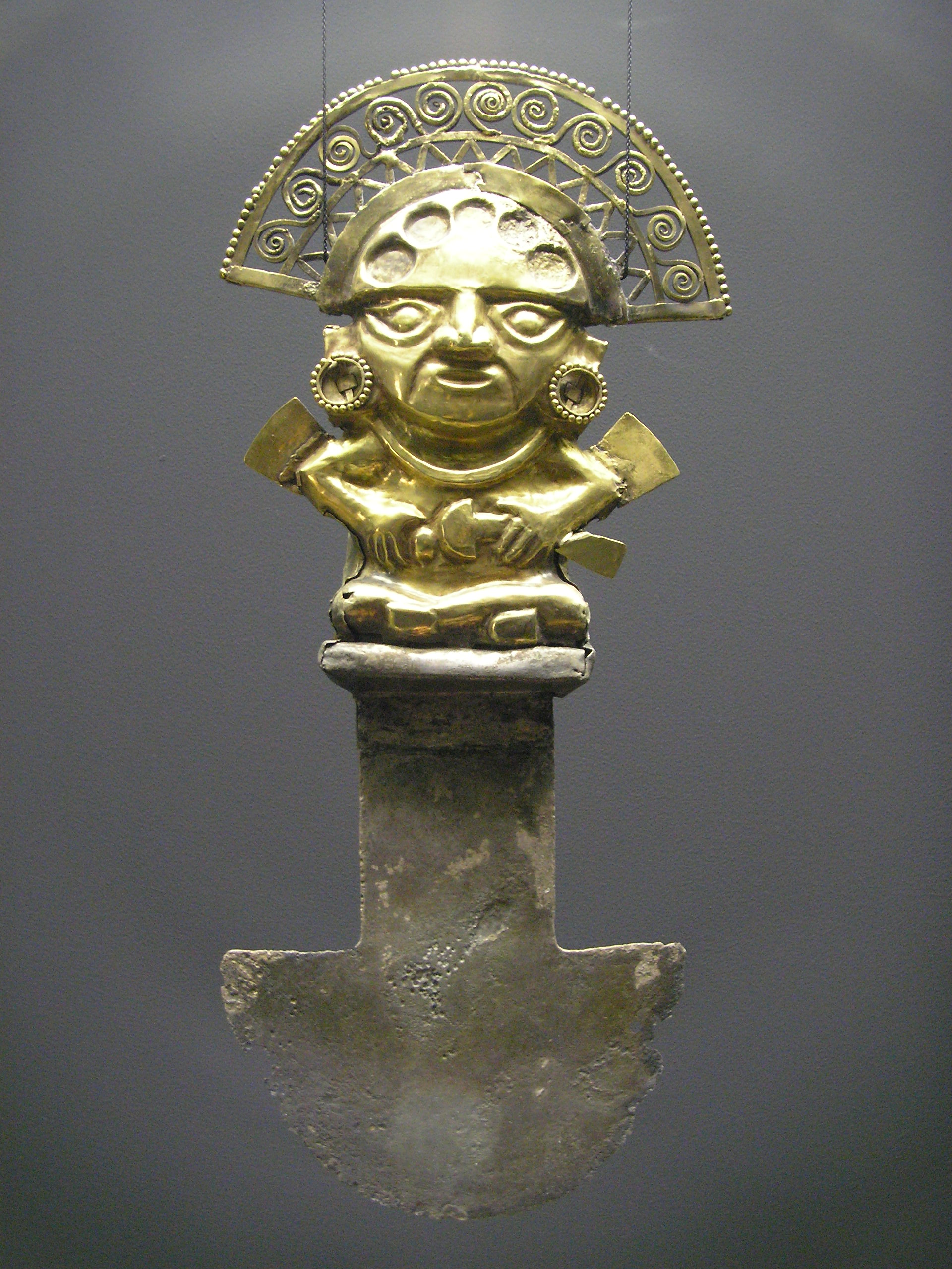 Ceremonial knife from Sipán in Peru. 850-1050 A.D.. This so-called tumi knife was given into the tombs of rich families in the norther coastal areas of modern-day Peru. This golden insignia depicts a richly ornated dignitary, who himself is holding a sacrificial knife in his hand. He was probably a priest or had some function as such. Originally the earlobes had turquoise inlaid in them. The backside is decorated with tear-shaped gold leaf.